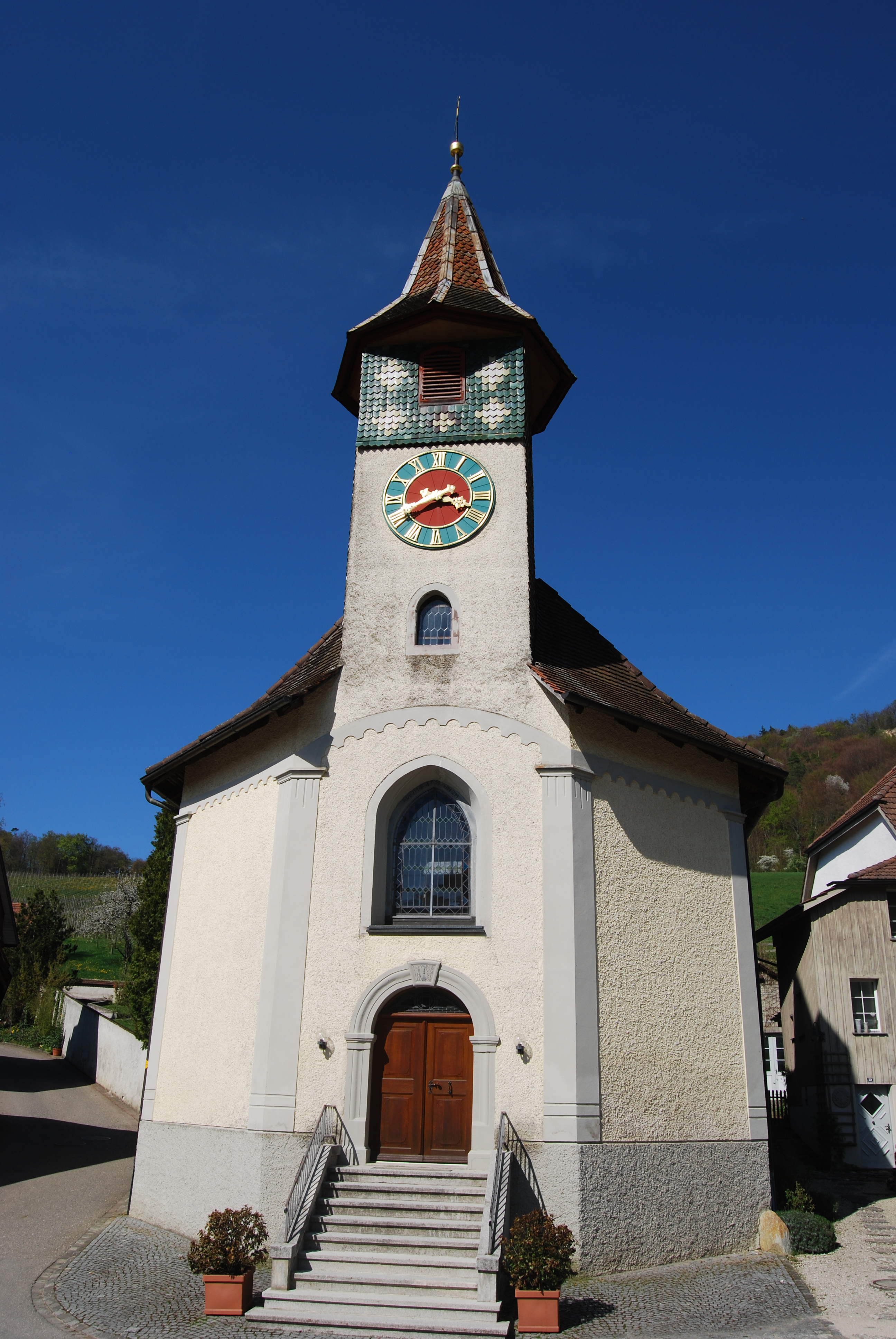 Church Saint Jacob at Osterfingen, canton of Schaffhausen, Switzerland